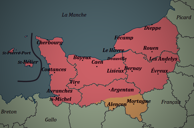 Norman language. Langue normande.